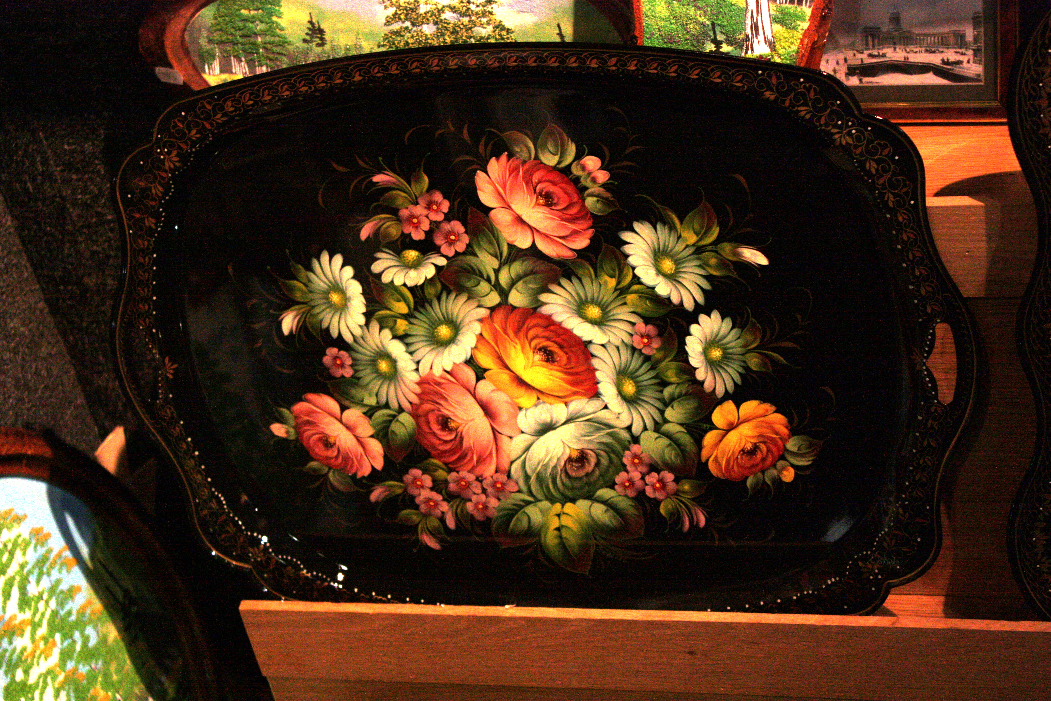 Russian lacquer art, russische Lackminiaturen, St. Petersburg, 2009, magazin Berjoska, for foreign tourists